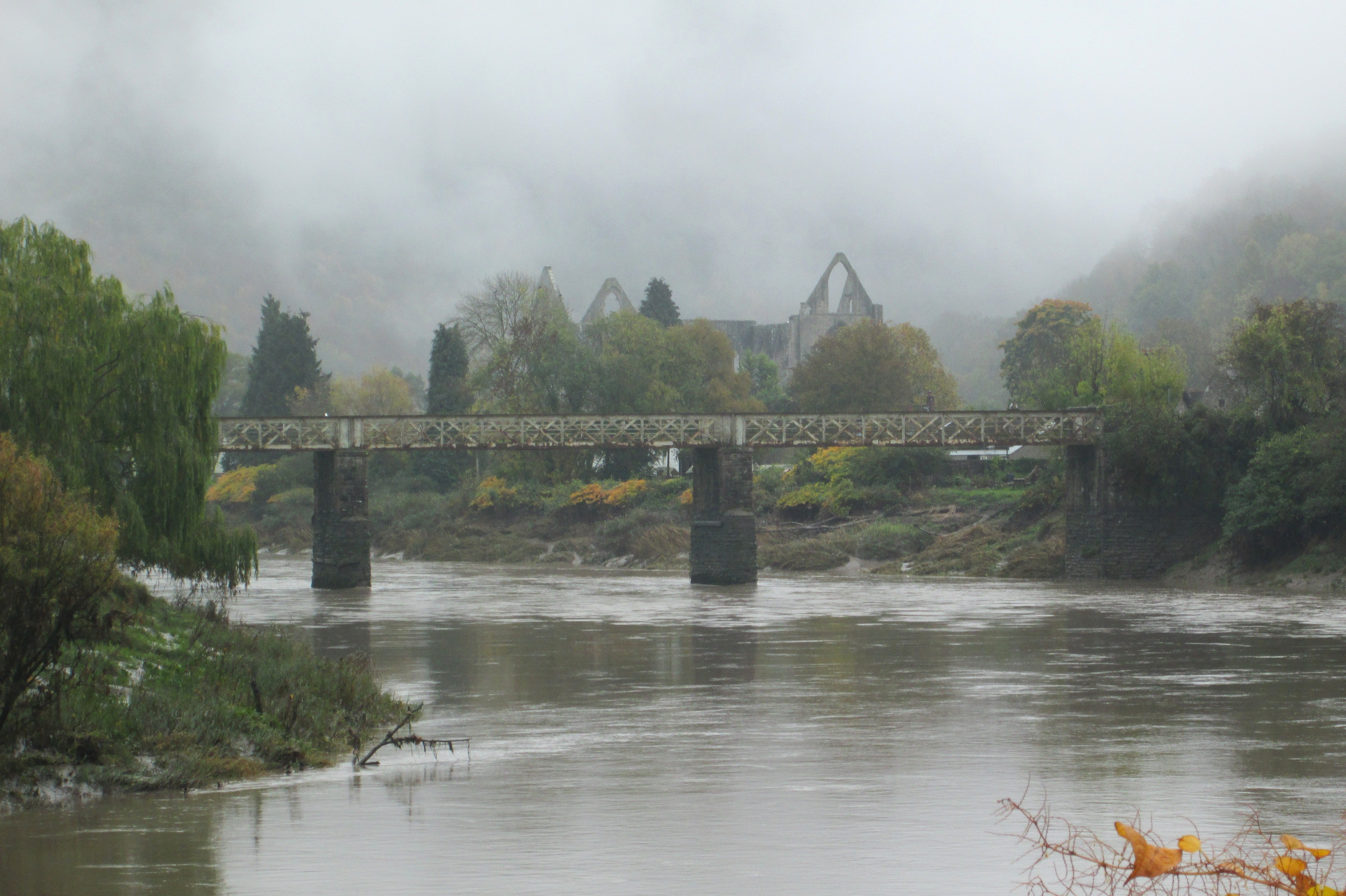 The branch line to the wire works near Tintern Abbey was completed in 1875 and is still used to access footpaths on the opposite bank. This shot was taken in misty conditions on the morning of 28 October, 2015